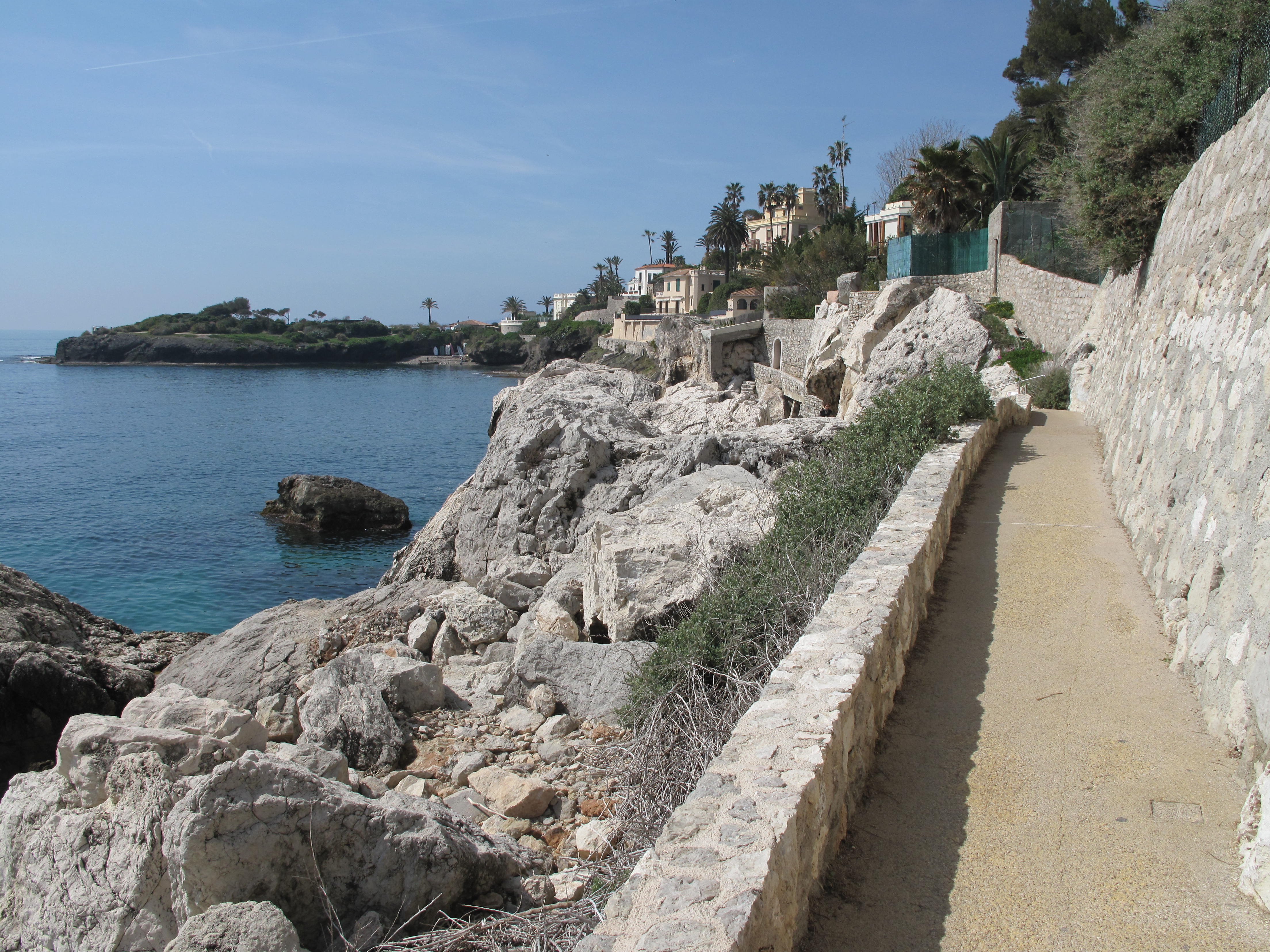 The littoral path from Monaco to Cap d'Ail, Alpes-Maritimes, France